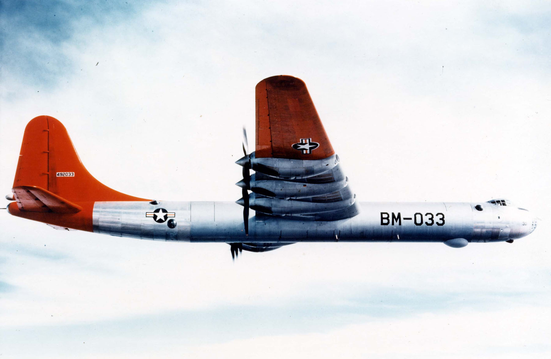 A Color Photo of a Convair B-36B in Air.